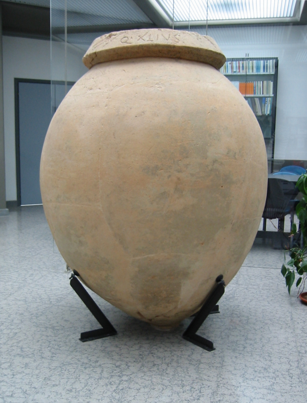 Dolium at the Museo Archelogico della Sibaritide at Sibari in Calabria in Italy